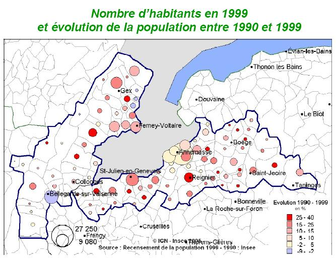 Genevois français